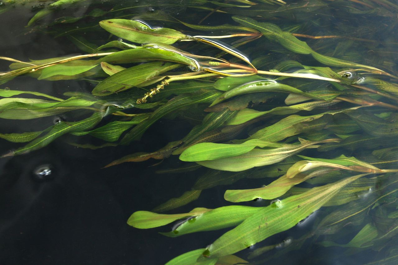 Robust form of Potamogeton alpinus in a river in Russia